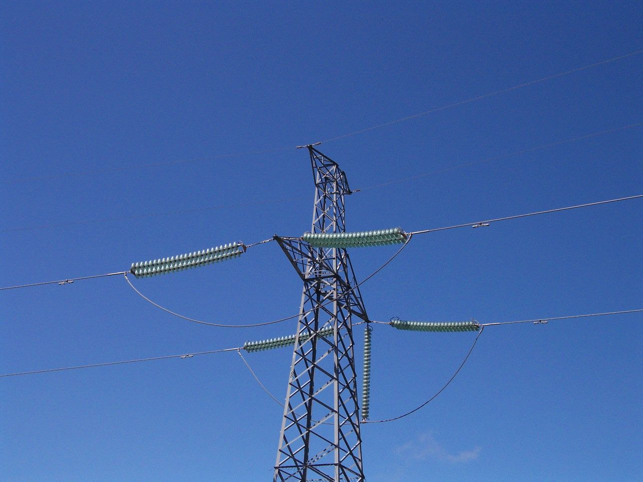 High-voltage direct current (HVDC) dead-end pylon of the SACOI 1 line in Sardinia